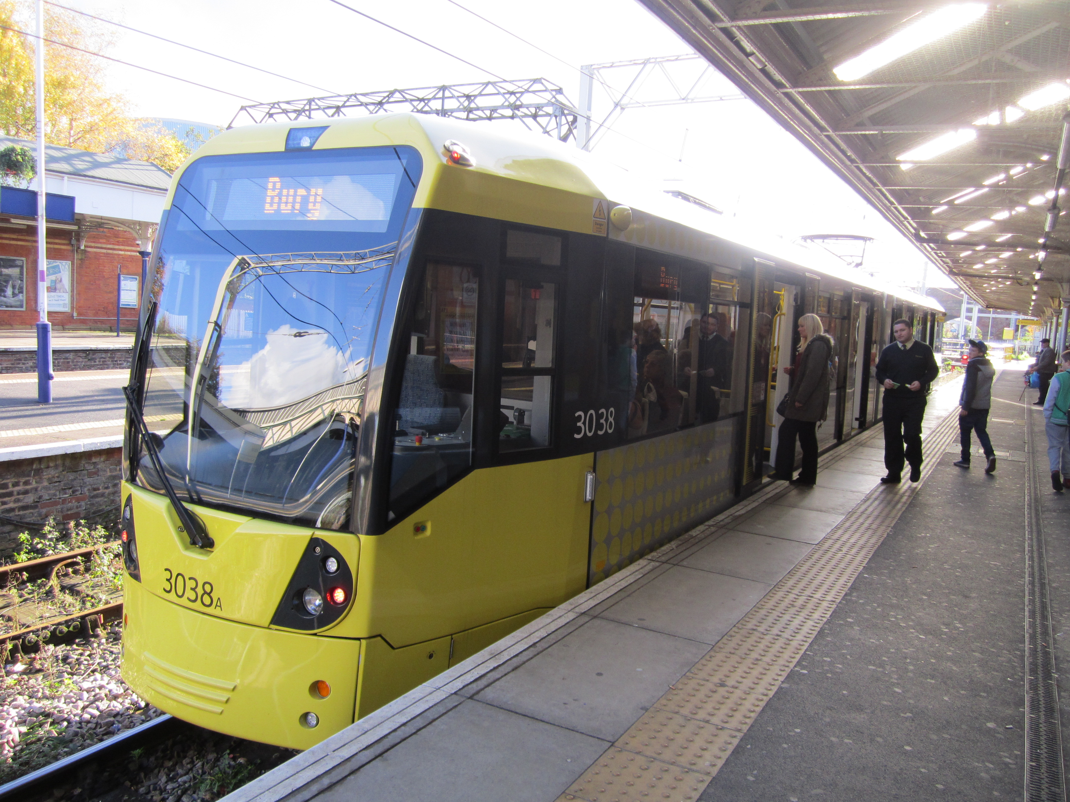 Photo taken at Altrincham Interchange, Greater Manchester, England.